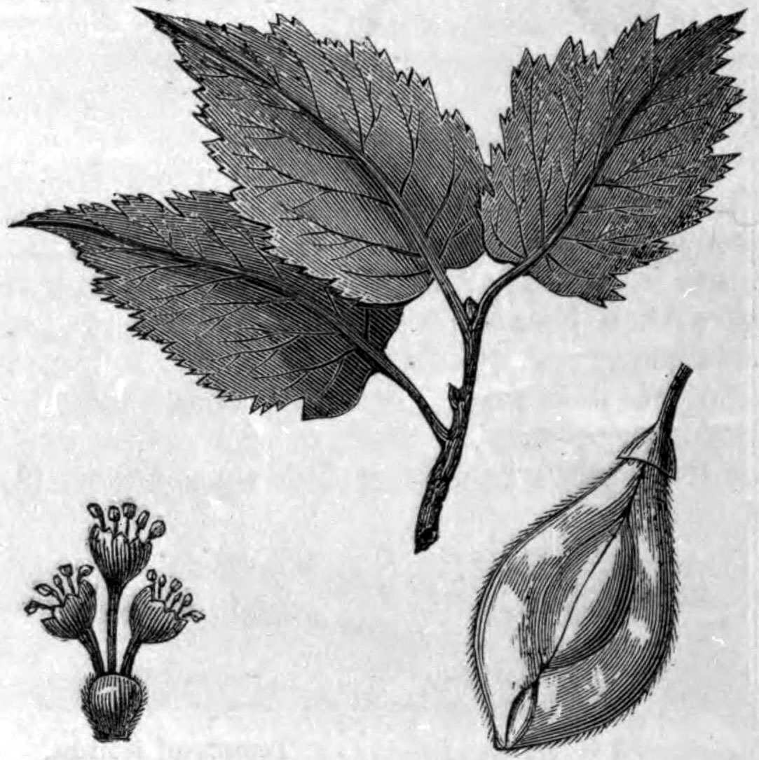 Leaves, twig, fruit and flower of the American Elm (Ulmus Americana)